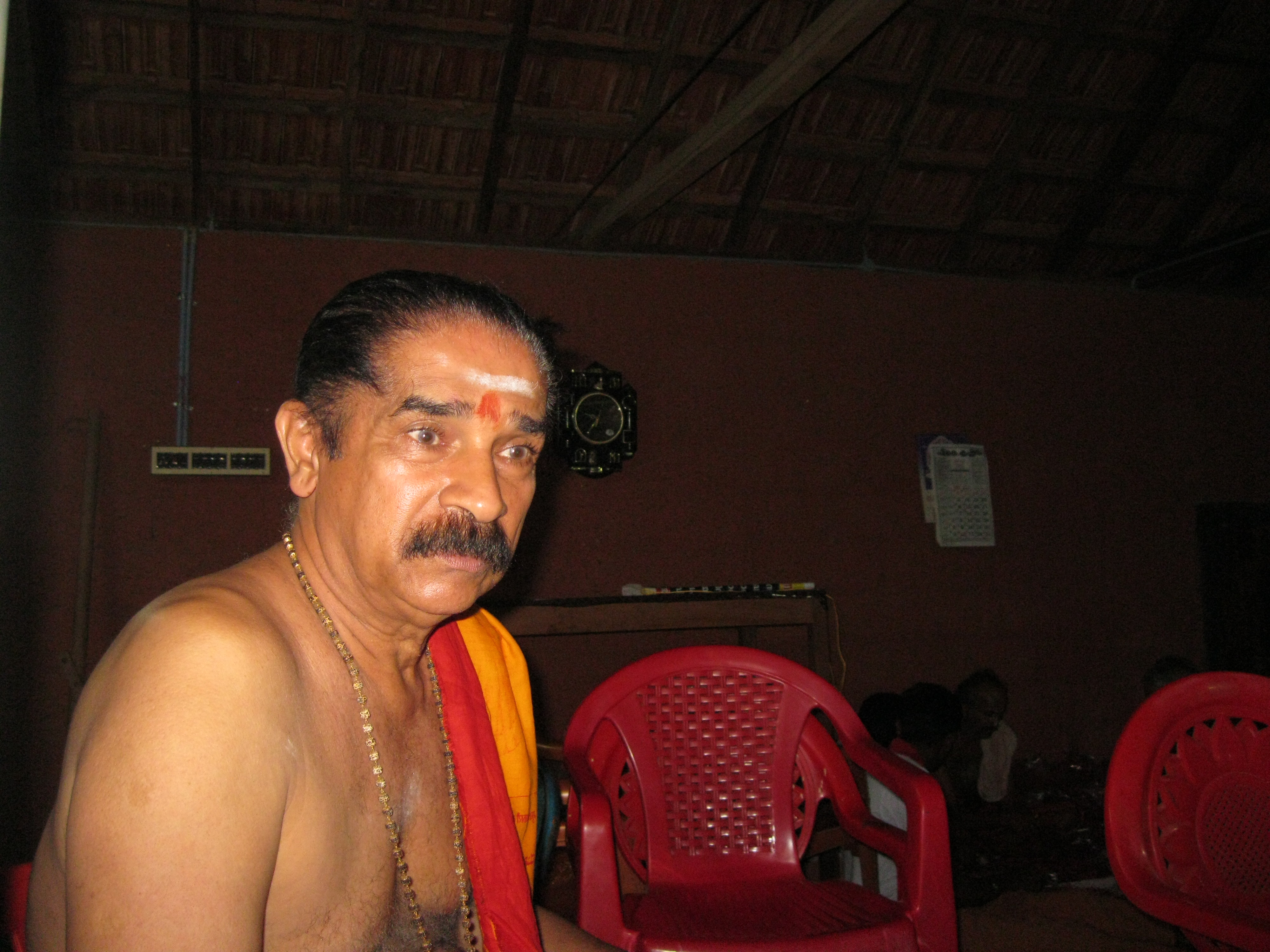 the trusty of kunnathur padi muthappan deva sthanam of kannur , kerala